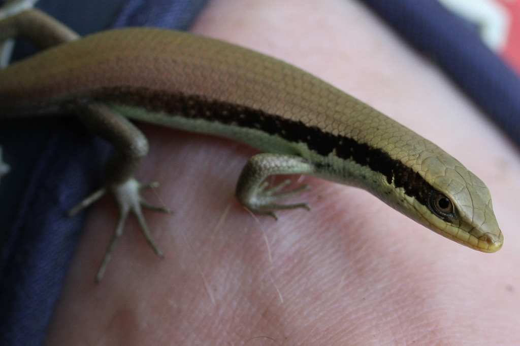 I think this is a juvenile indicus, taken near Ho Chung, Sai Kung, after it climbed onto my foot for some posing.